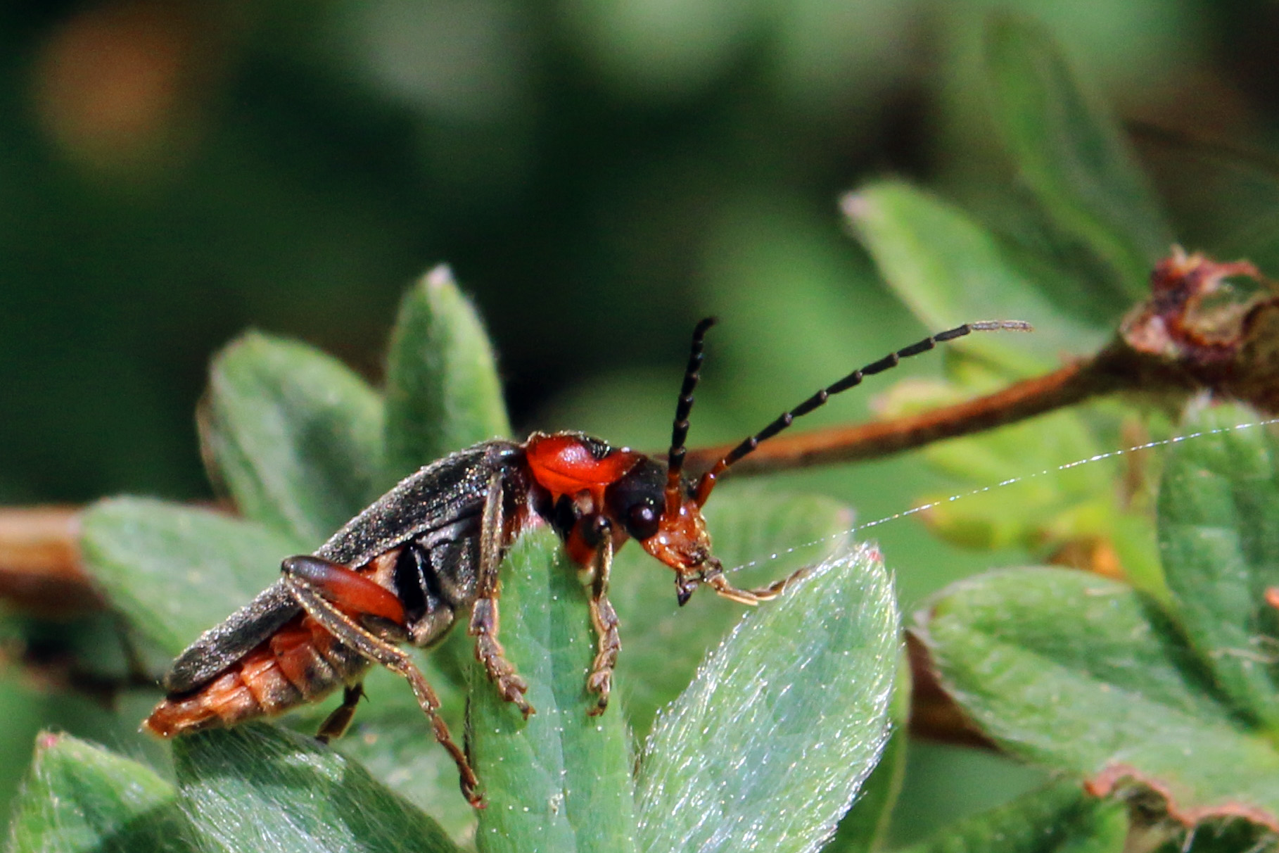 Soldier beetle (Cantharis pellucida)